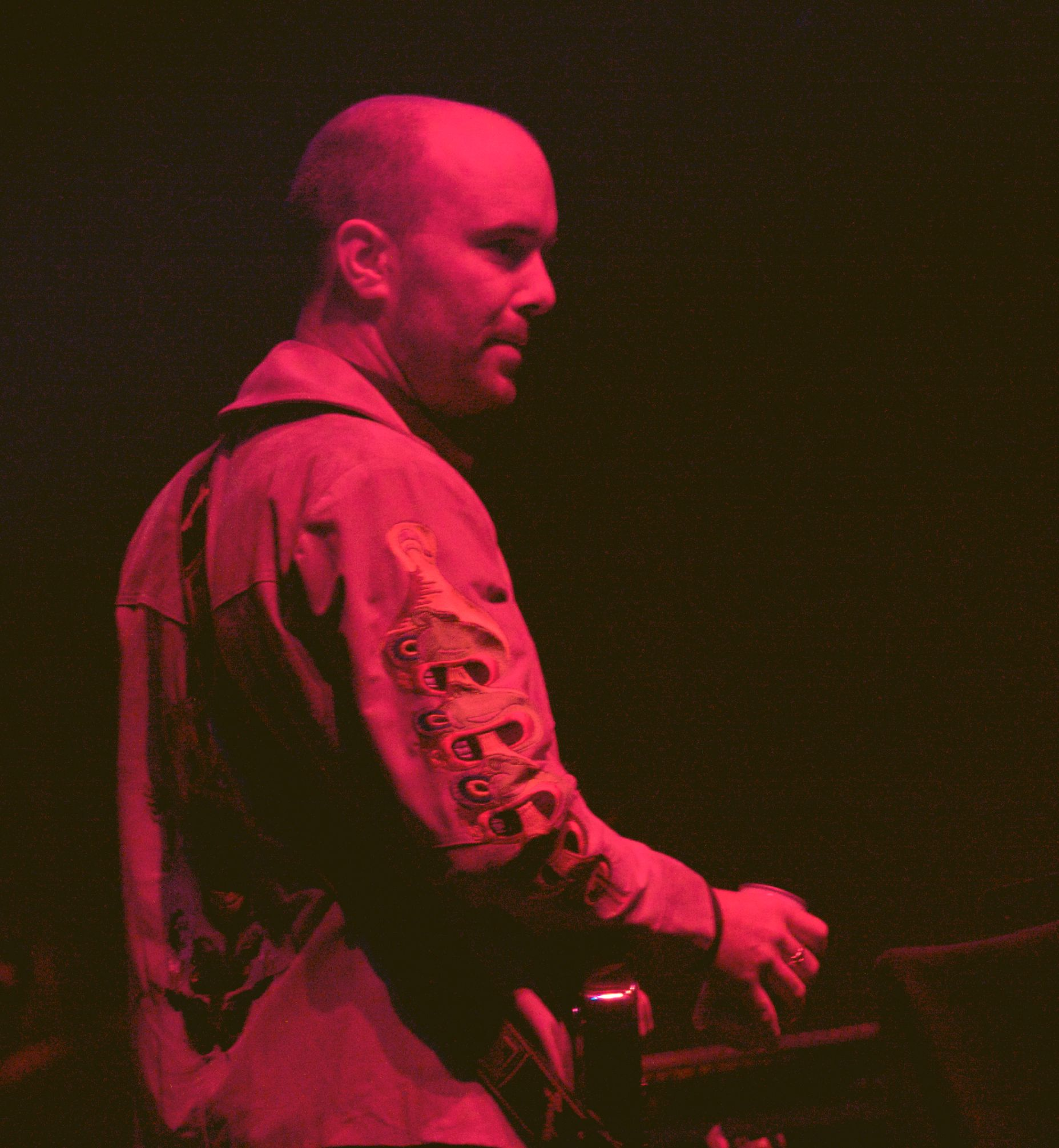 Cian Ciaran performing with the Super Furry Animals at the Summersonic Festival, Tokyo, Japan, 2008.